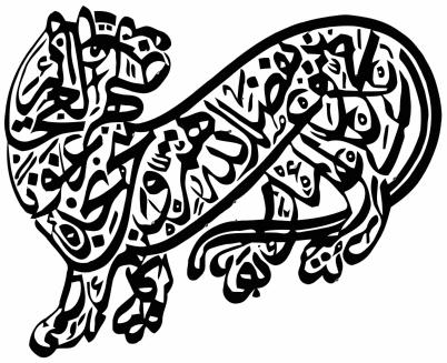 Ismal lion